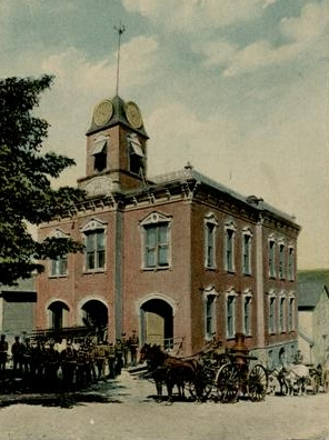 The Houghton Fire Hall circa 1900. It was Houghton's town hall and the first home of the Michigan College of Mines. Image from a postcard published about 1900.